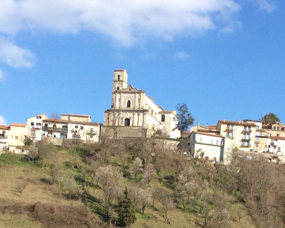 The Church of Santa Maria Maggiore is the main church of Pignola and is located in higher part of it.